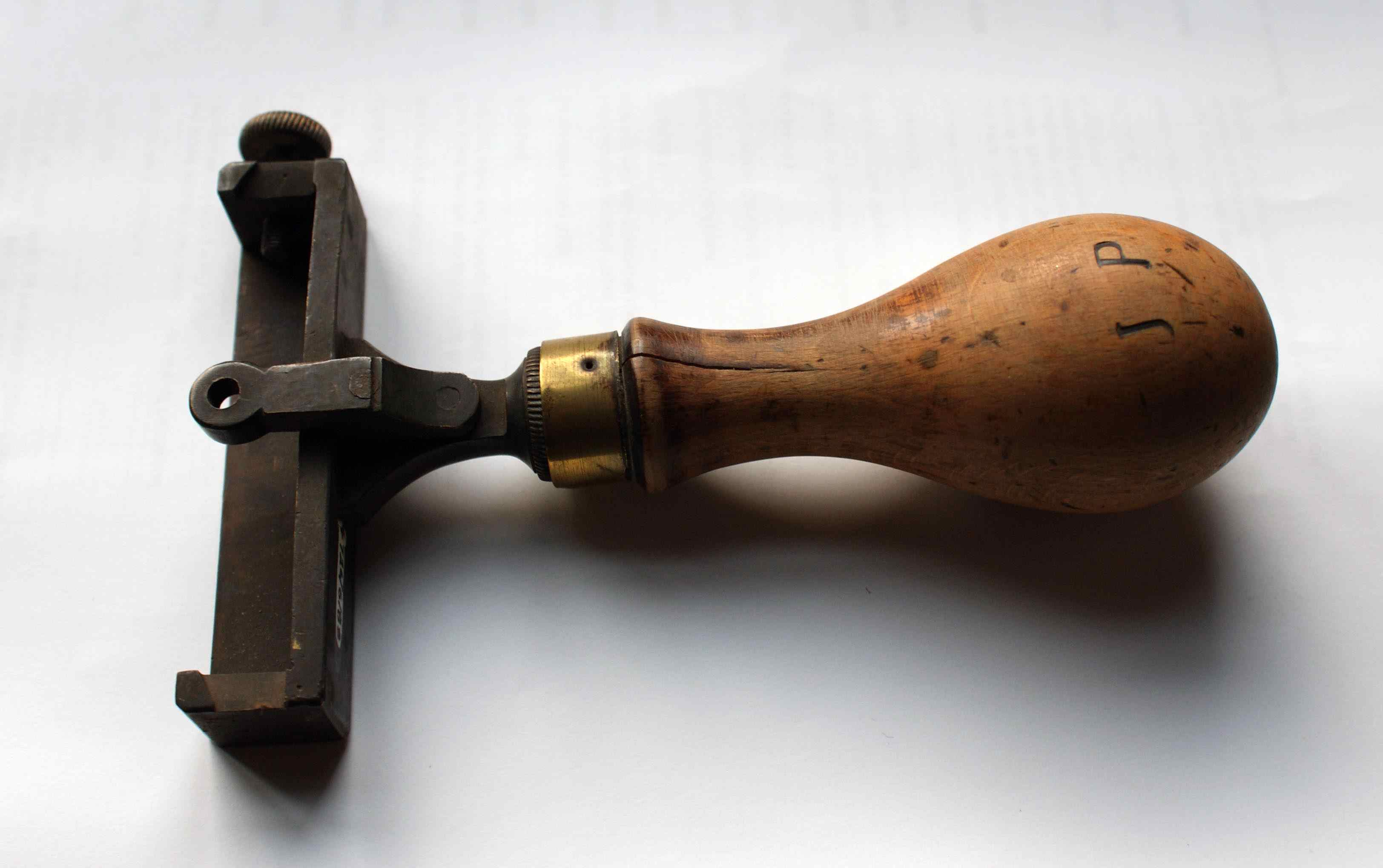 A metal box like compartment set on the end of a short wooden handle. Used for holding separate type sufficient to make up a few words. There is a thumb-screw for holding letters securely in the box. Initials J P on handle. Accession Number: hh.4726.6.88 This holder would have been used by the bookbinder to imprint letters onto the spine or cover of a book. The type and holder would have been heated on a gas stove and then the letters applied to the book cover with gold or foil. Used at Waverley Cameron, Blair Street.Waverley Cameron started as Nisbet MacNiven, a paper maker, in 1770 at Balerno, just outside Edinburgh. It then developed as a stationery wholesaler, after moving into the middle of Edinburgh in 1788. The first Camerons appeared on the scene in 1840 and the name was changed to MacNiven and Cameron in 1845. The Waverley nib (narrow waist and upturned point) was first manufactured for the company by Gillott in 1864, and later by Hinks, Wells. Gillott made the Waverley Pens until the mid 1870s, when they were transferred to Hinks Wells. In 1900, MacNiven and Cameron bought a factory in Birmingham and started to manufacture their pens themselves. The Birmingham factory was at the Watery Lane site from 1900 to 1964. Towards the end of that period, the factory was making mainly paper clips, of the barrel spring type, but some nib manufaturing continued to the end. The Waverley Pen continued, little changed, in production for exactly 100 years, until the Birmingham factory was closed in 1964. This item is on display at the People's Story Museum, the Canongate, Edinburgh. Edinburgh City of Print is a joint project between City of Edinburgh Museums and the Scottish Archive of Print and Publishing History Records (SAPPHIRE). The project aims to catalogue and make accessible the wealth of printing collections held by City of Edinburgh Museums. For more information about the project please visit